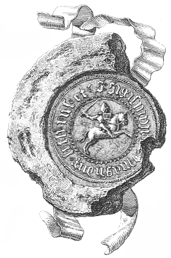 Zygmunt Korybutowicz seal (Seal of Sigismund Great Duke of Lithuania)